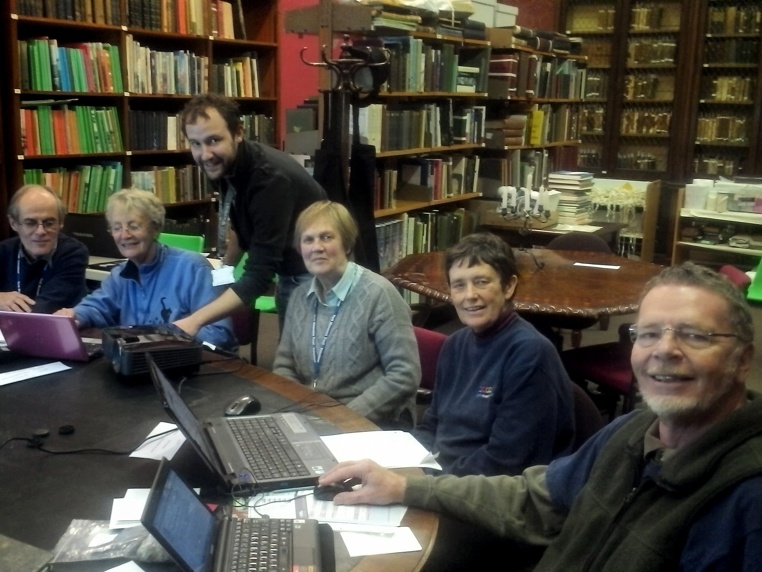 Yorkshire Philosophical Society members learning to edit Wikipedia as part of a York Museums Trust training event.